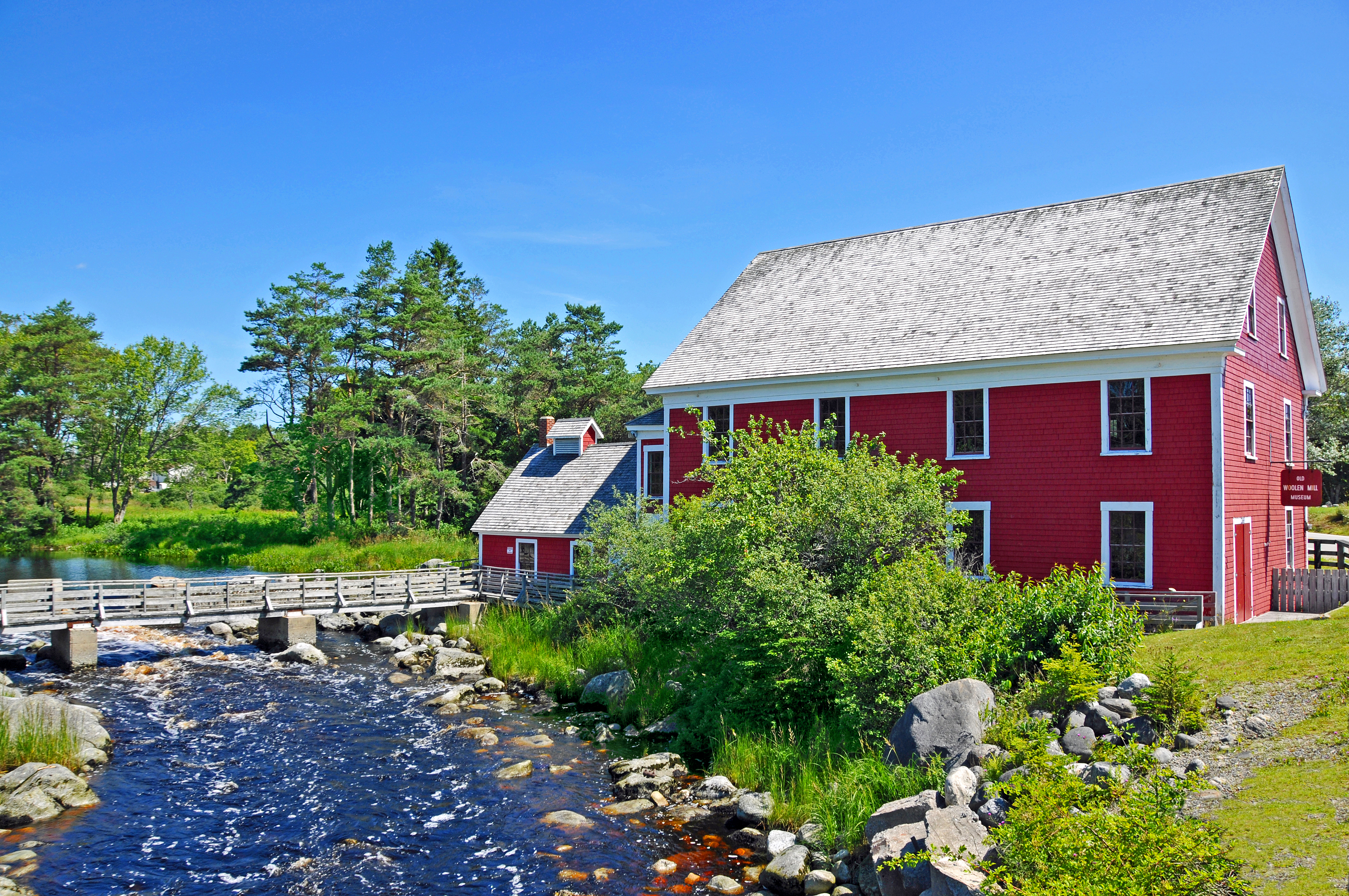 PLEASE, no multi invitations, glitters or self promotion in your comments. My photos are FREE for anyone to use, just give me credit and it would be nice if you let me know, thanks - NONE OF MY PICTURES ARE HDR. The Barrington Woolen Mill was a local concern back in the 1800s when fishermen needed warm and durable wool clothing. The mill, powered by a water turbine, took over the time-consuming chores of washing, picking, carding, spinning, dyeing and weaving wool. Barrington, Nova Scotia, Canada